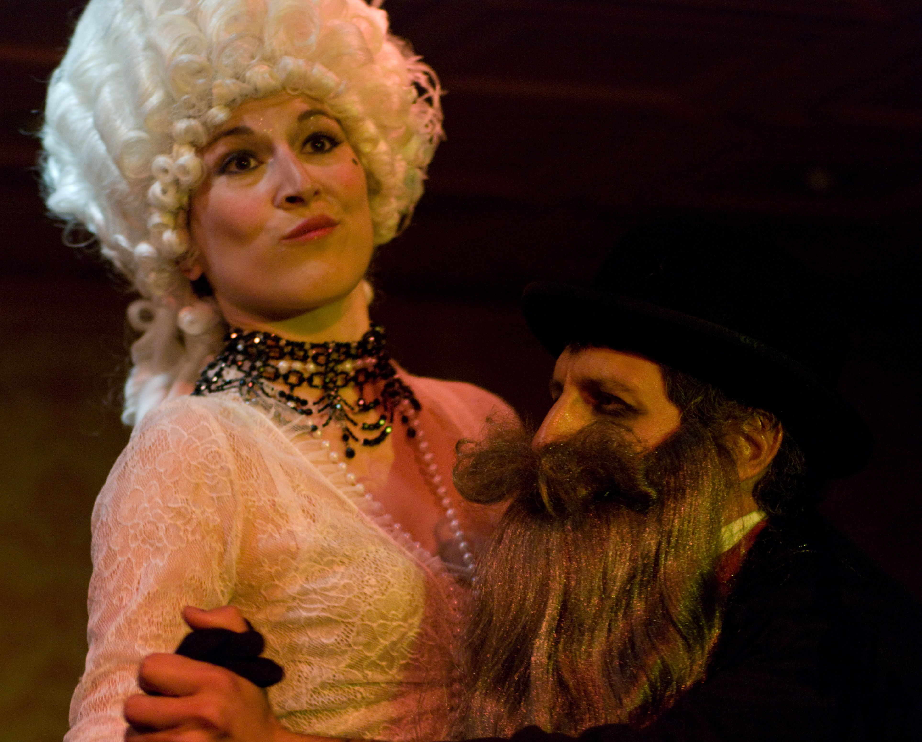 A still from their Seven Deadly Sins series.